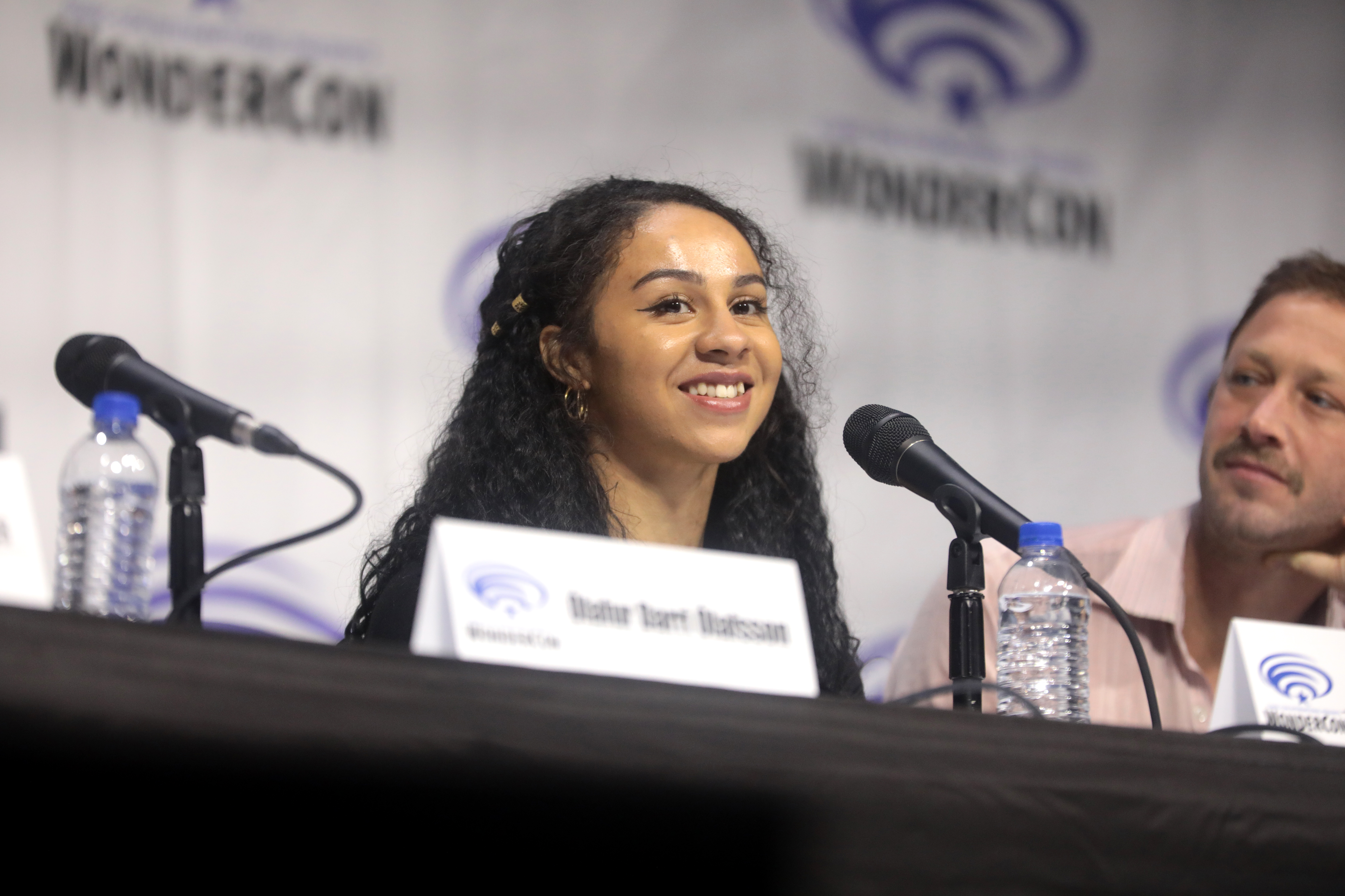 Jahkara Smith speaking at the 2019 WonderCon, for "NOS4A2", at the Anaheim Convention Center in Anaheim, California.